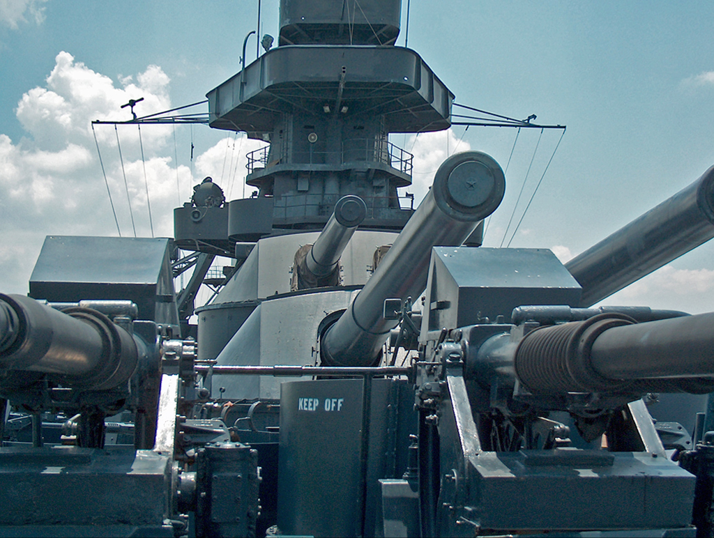 USS Texas August 2005